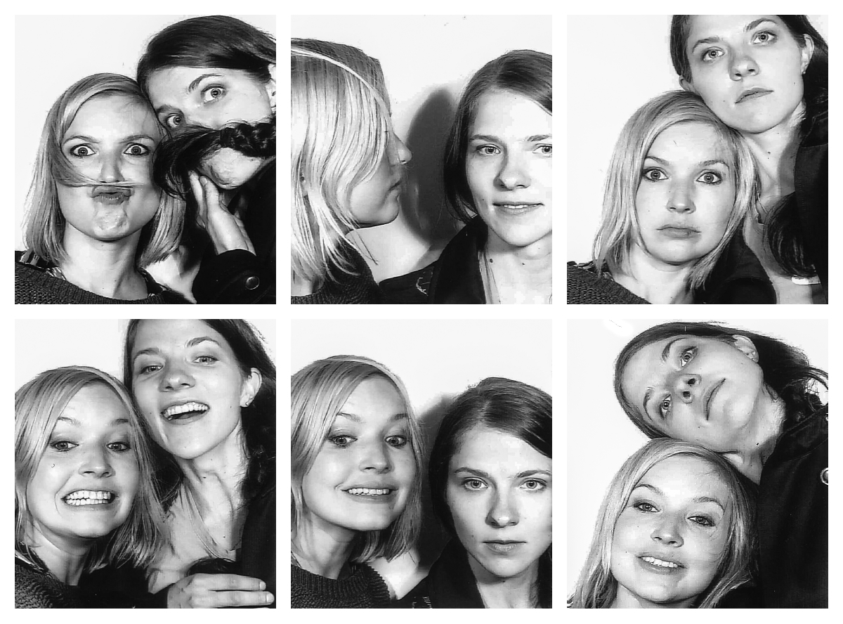 Actors Marja Salo and Anna Paavilainen.